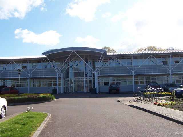 Tapton Innovation Centre near Chesterfield